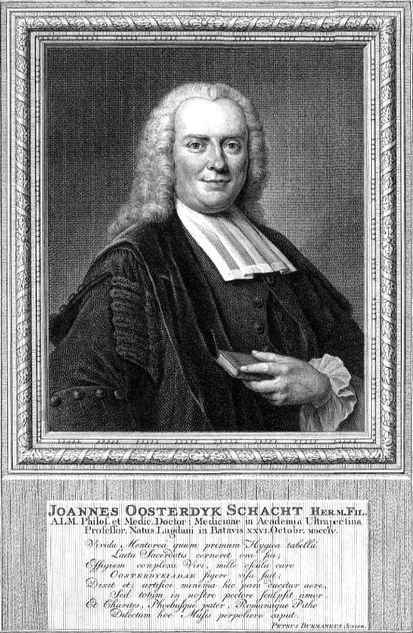 Johannes Oosterdijk Schacht (1704-1792), Dutch physician